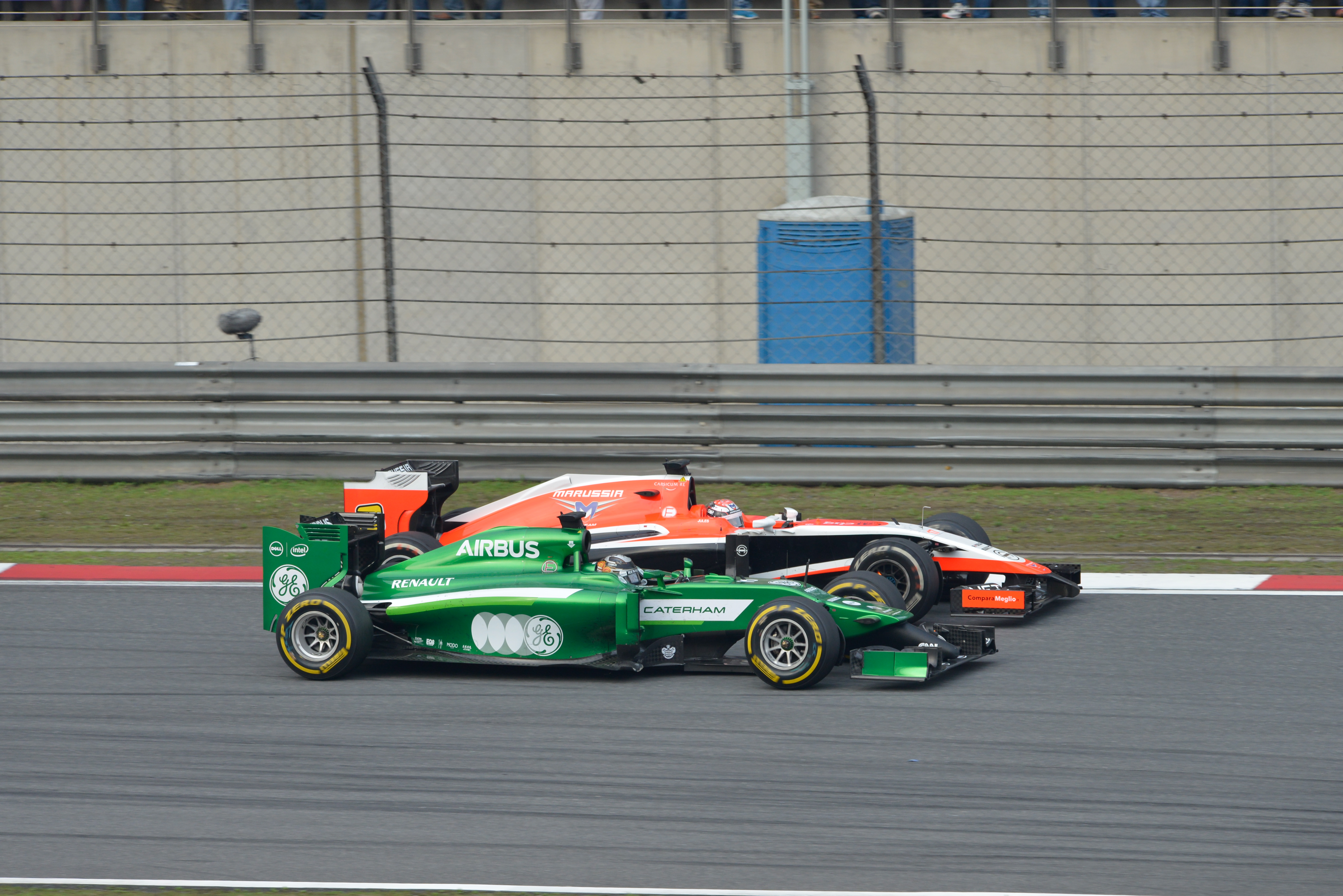 Kamui Kobayashi (Caterham) overtaking Jules Bianchi (Marussia)